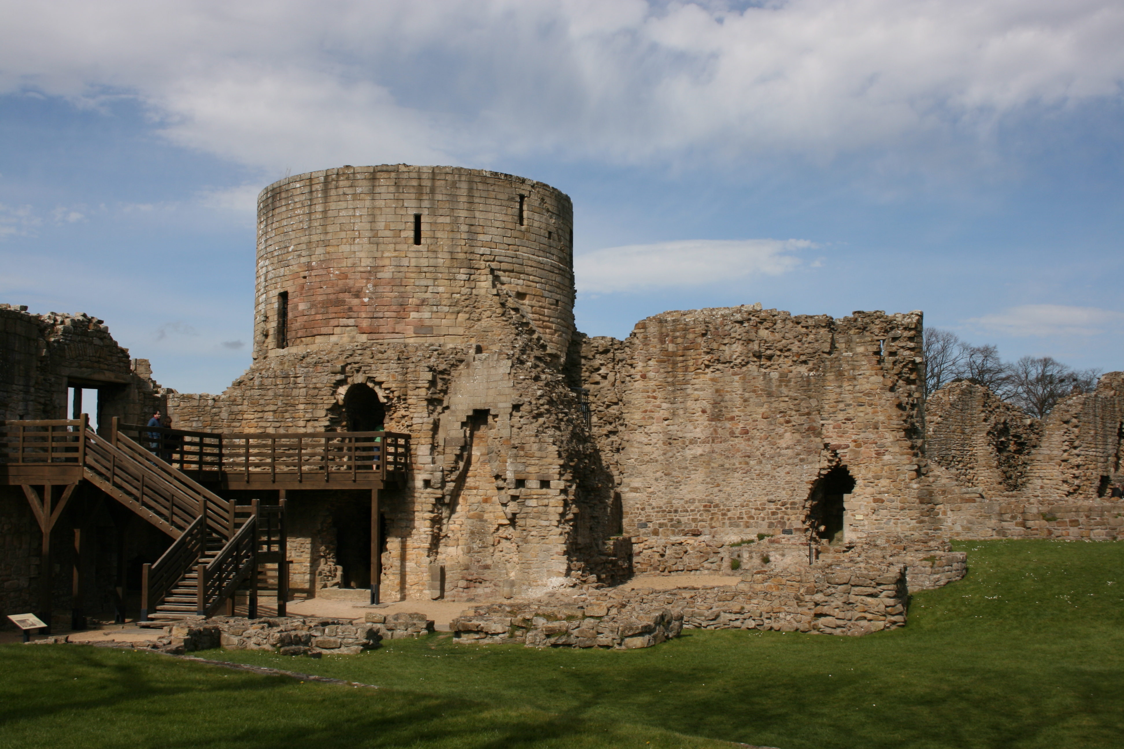 Barnard Castle's round tower seen from within the castle